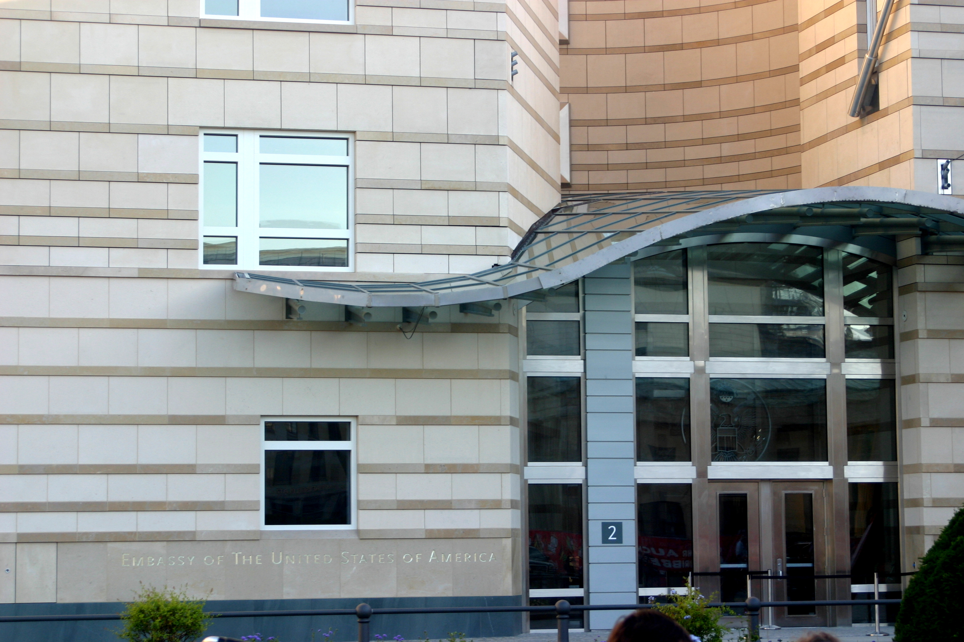 Main-entrance of the new embassy-building of th USA in Berlin